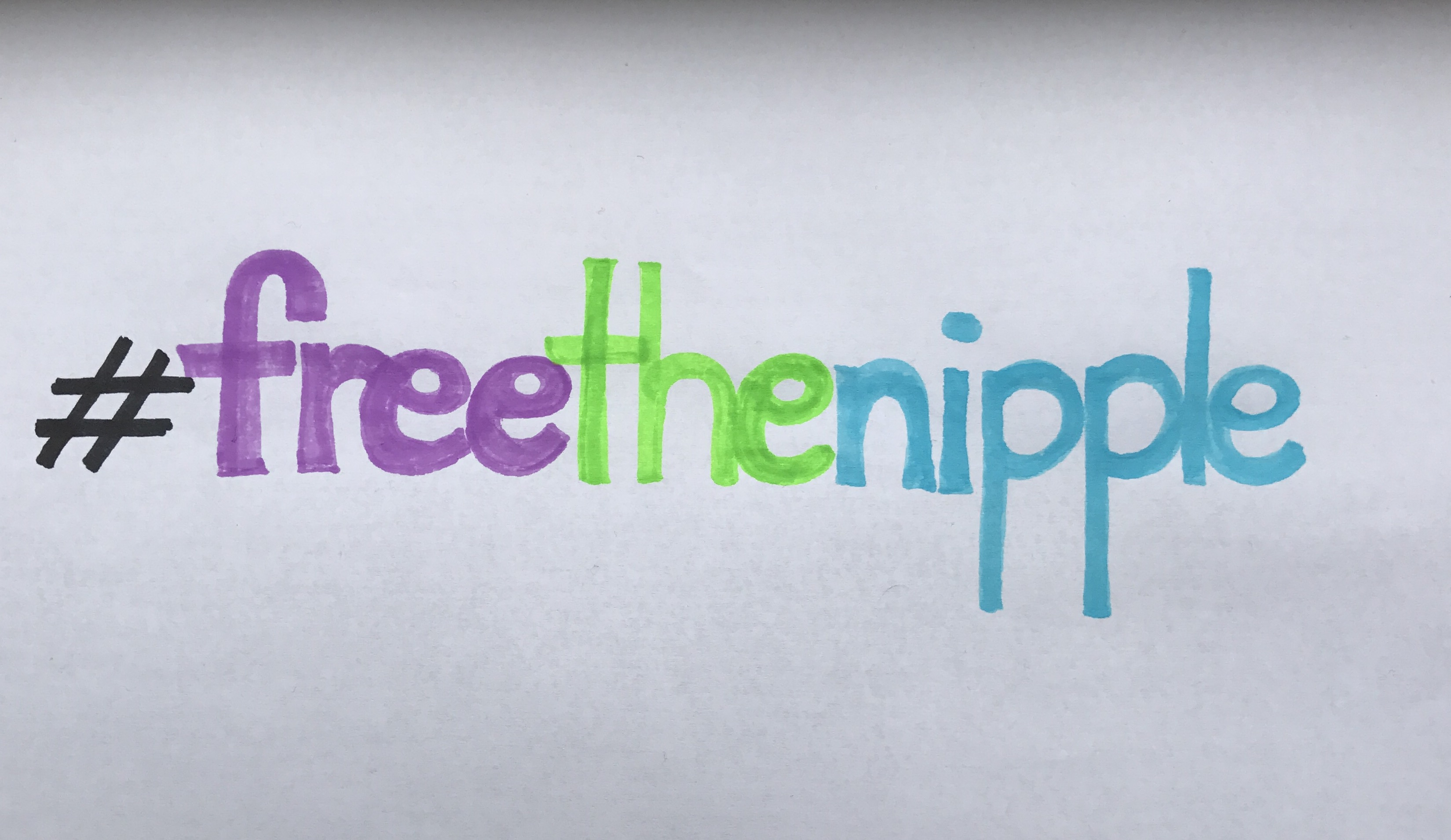 Self-written and photographed hashtag of the 'freethenipple' hashtag depicted in four different colors (black, purple, green, and blue).